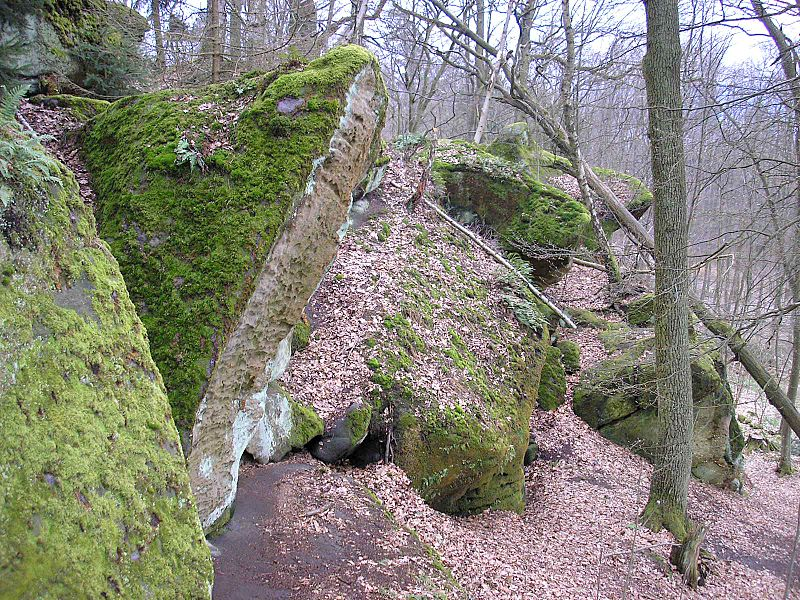 Lichtenstein castle near Pfarrweisach (Landkreis Haßberge, Lower Franconia, Germany). Part of the "sandstone labyrinth" near the castle